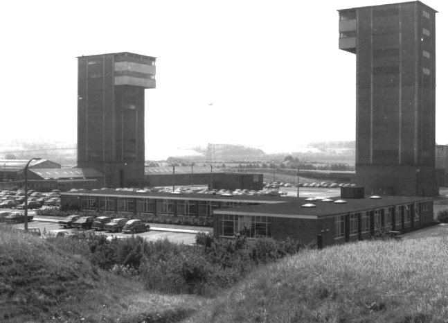 Cotgrave Coal Mine circa 1963